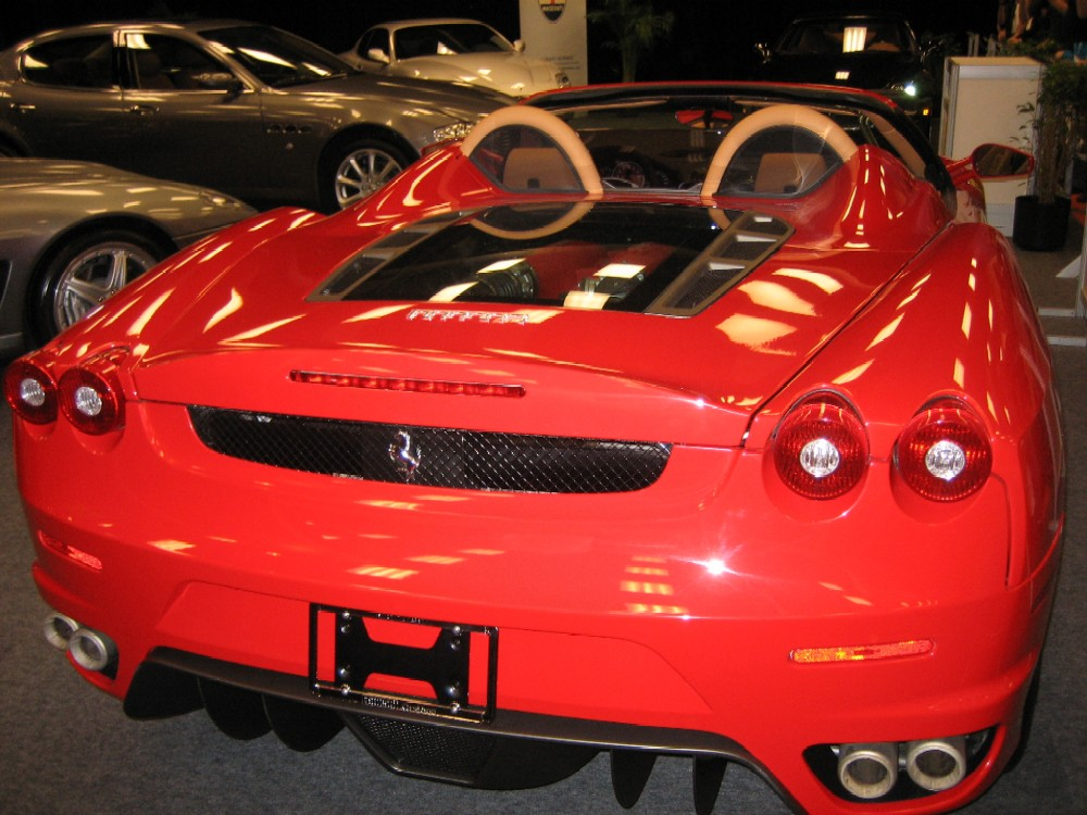 Ferrari F430 Spider rear. Photo taken January 28, 2006 at the Montreal International Auto Show.